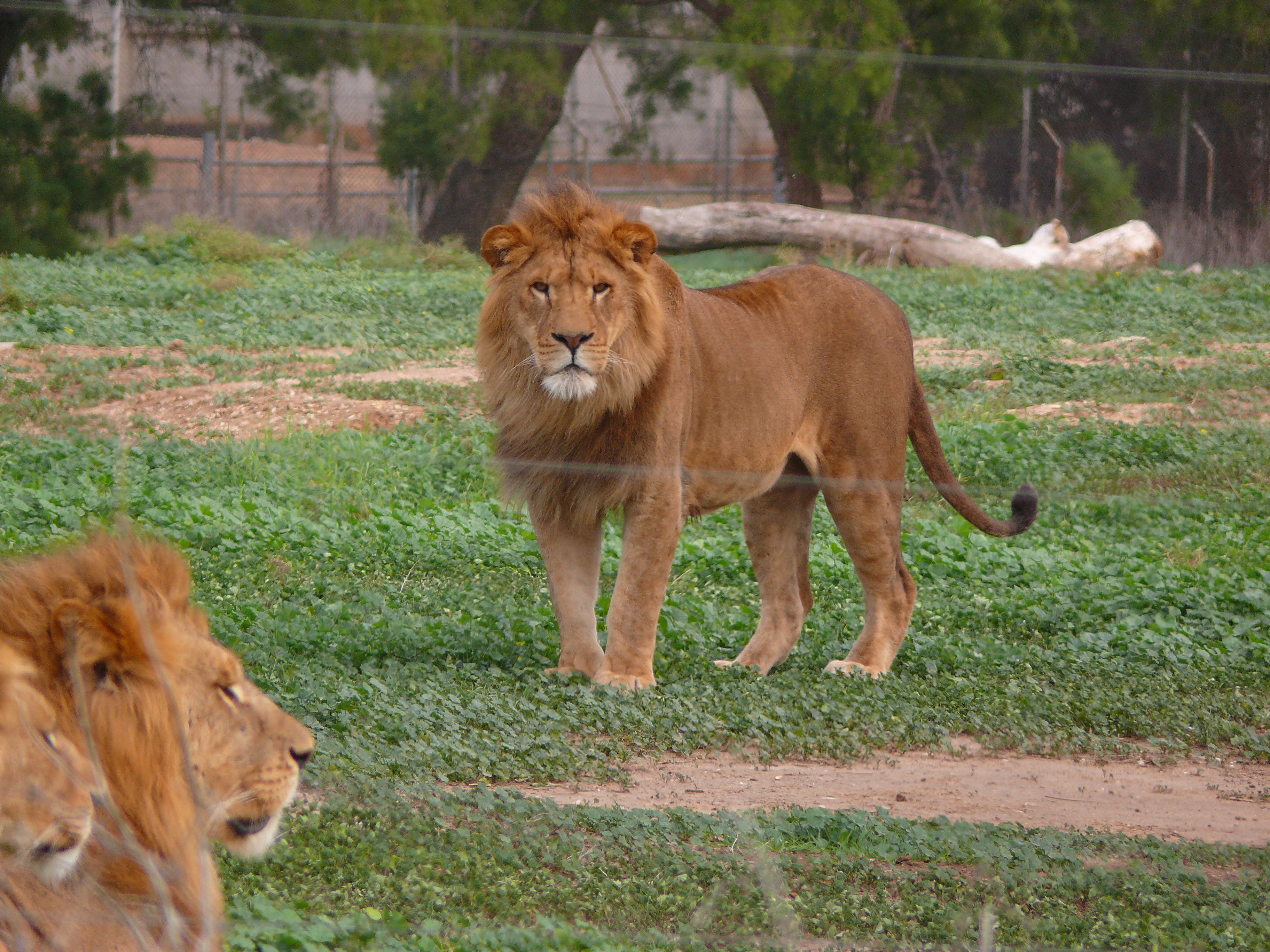 Lion (Panthera Leo), Safari Ramat Gan, Israel